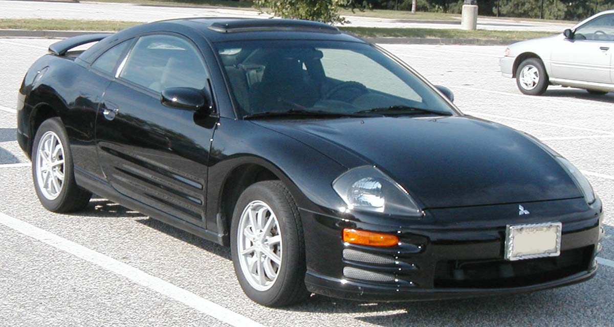 2000-2005 Mitsubishi Eclipse photographed in USA.